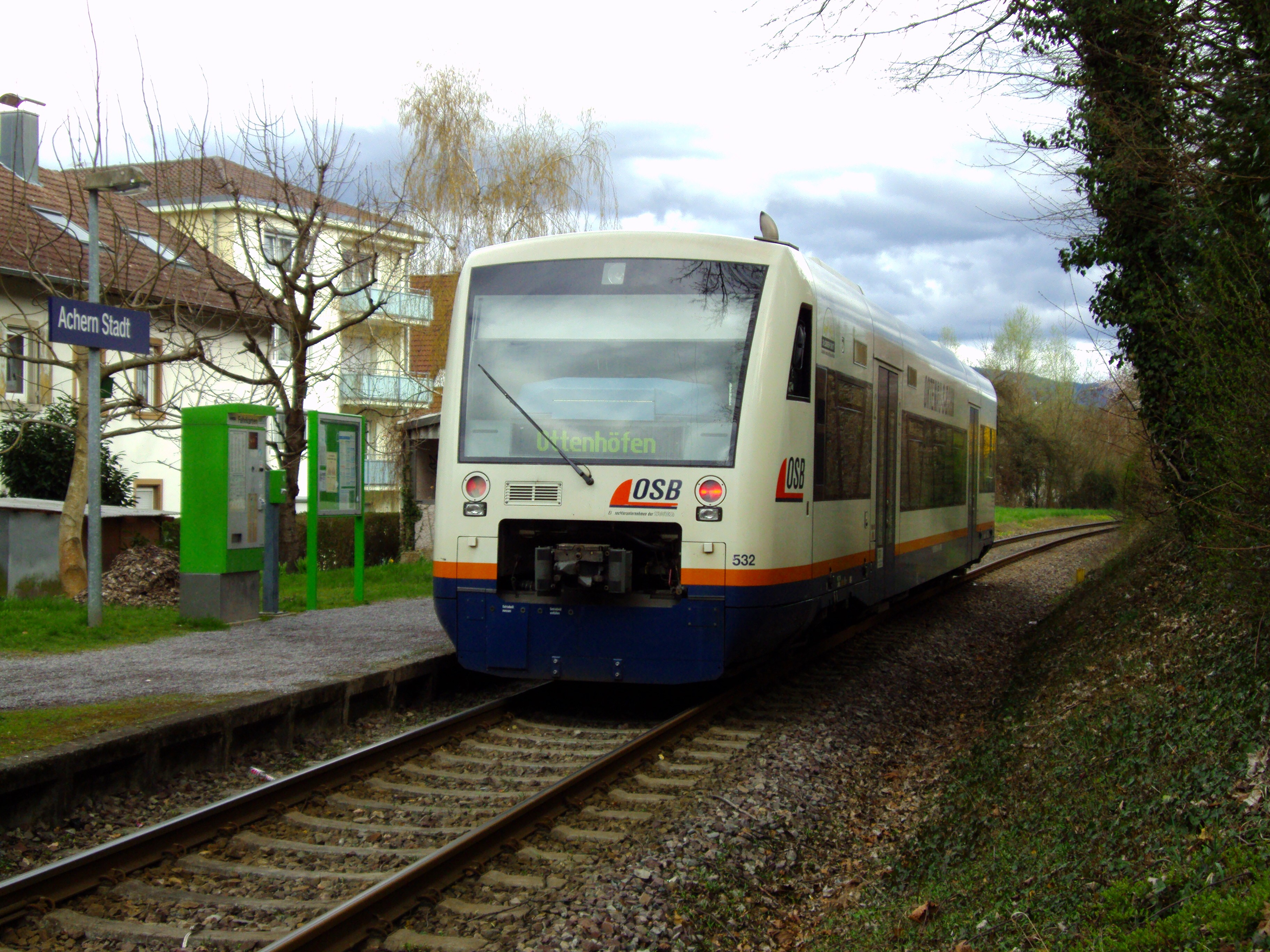 Regio-Shuttle of the Ortenau-S-Bahn leaves Achern Stadt stop as local OSB 71720 from Achern to Ottenhöfen on the Acher Valley Railway